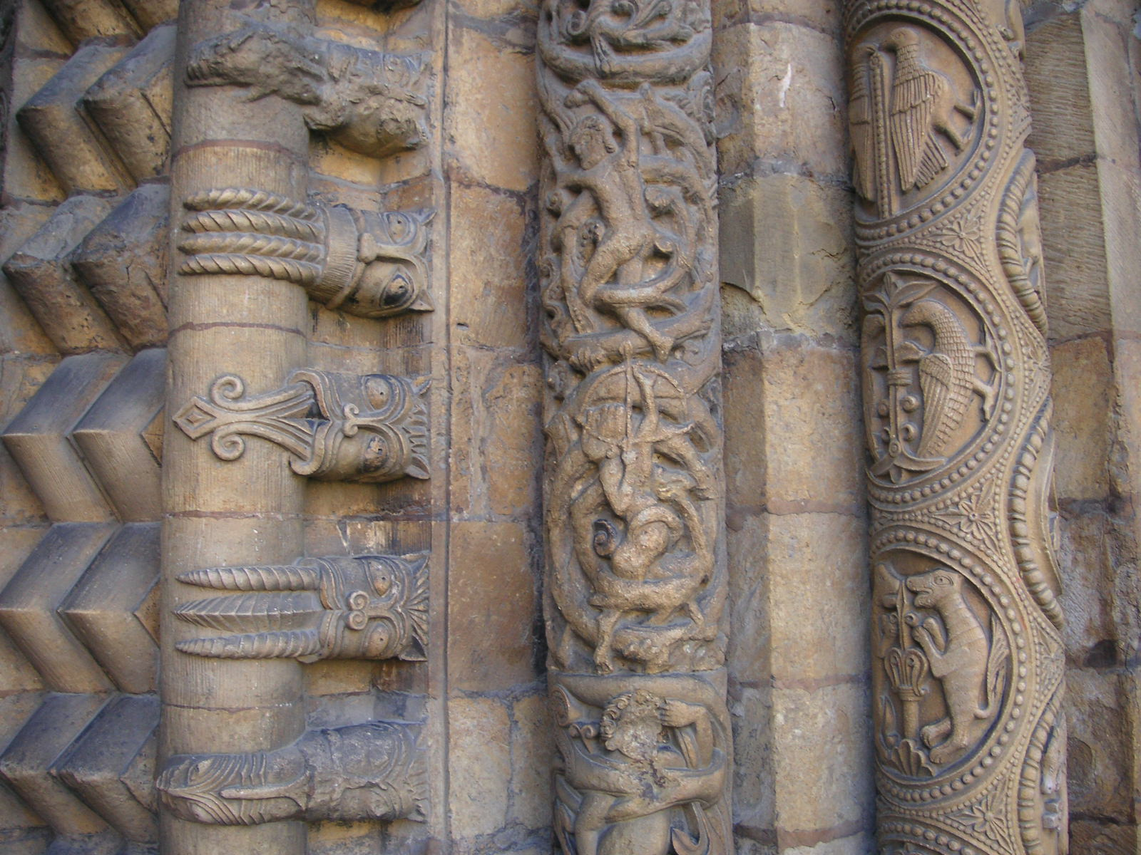 England, Lincoln Cathedral, West front, Norman portal, detail